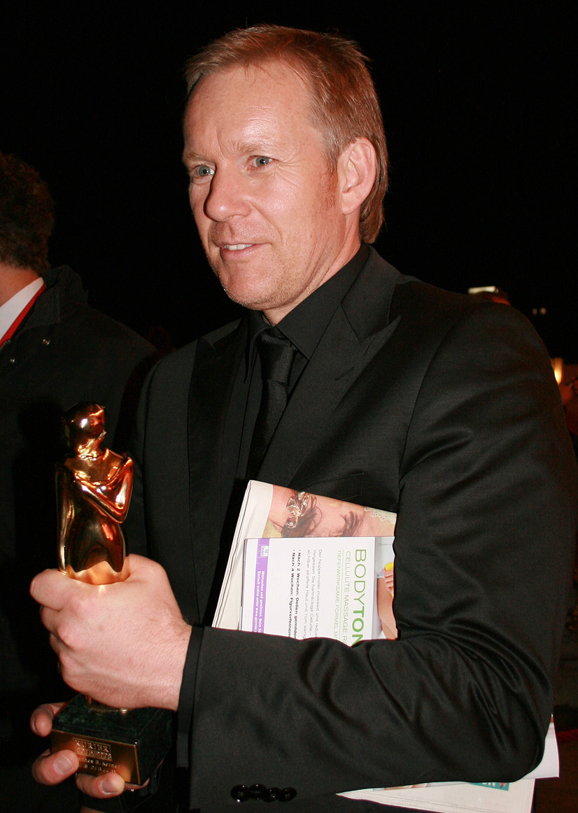 Johannes B. Kerner at the Romy TV awards (Hofburg Imperial Palace in Vienna)